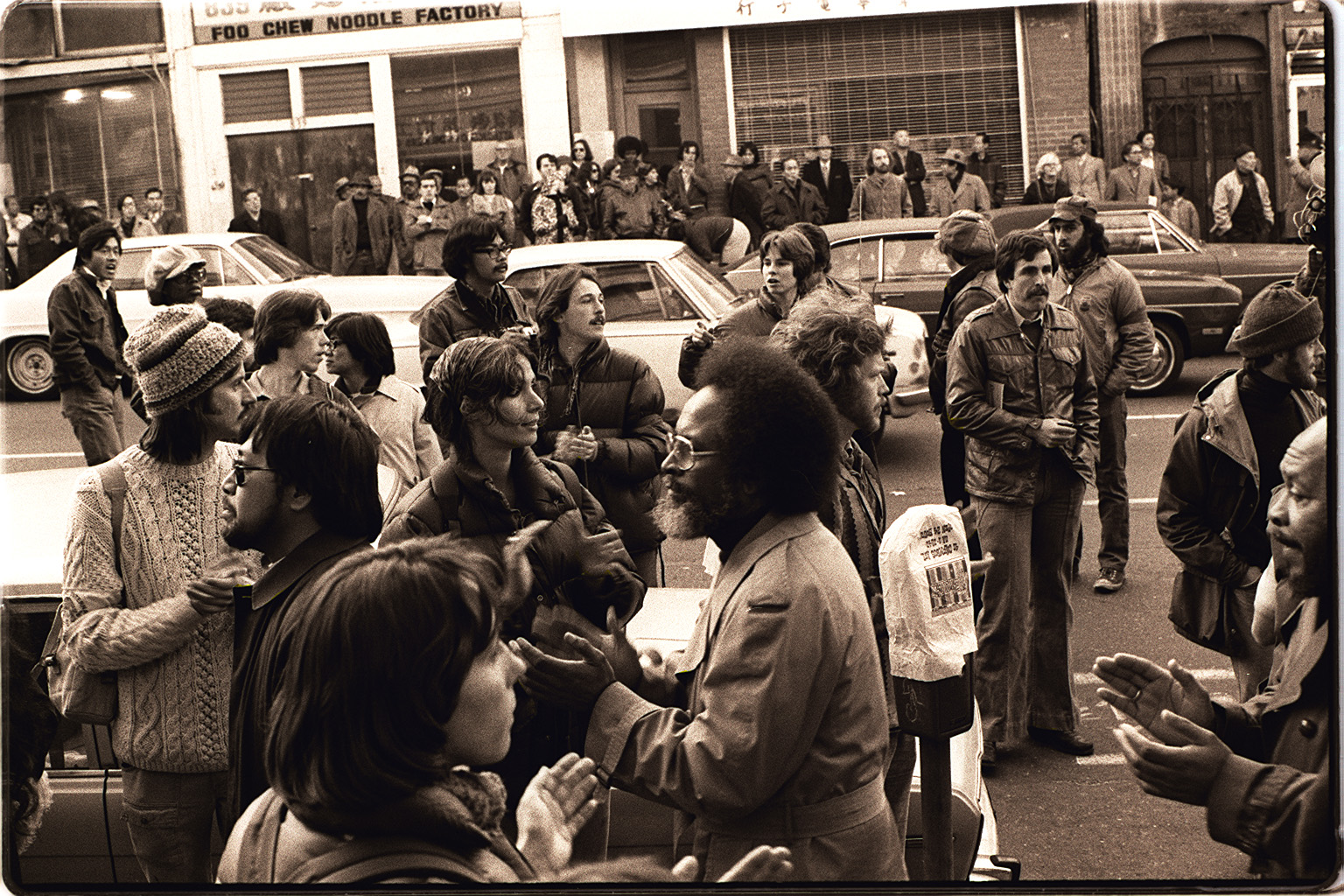 Reverend Cecil Williams (center front) at an anti-eviction rally January 1977 to save the International Hotel at 848 Kearny Street in San Francisco. Television reporter Mike Cerre is at right, behind parking sign. Photo by Nancy Wong